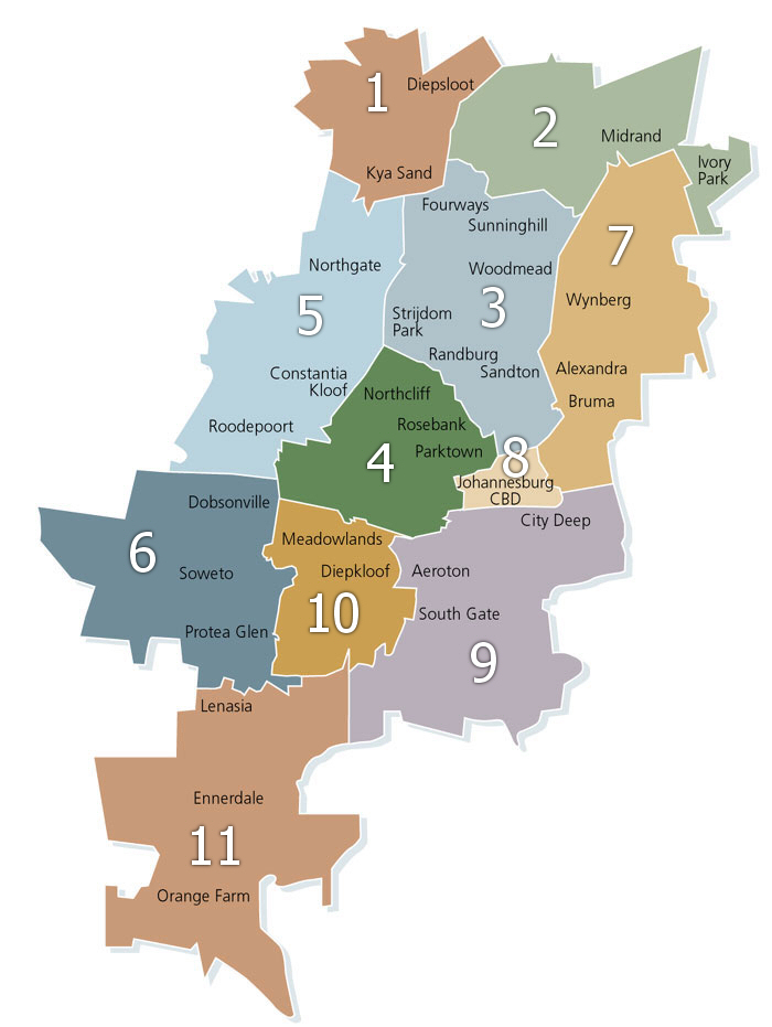 Map of the regions of Johannesburg with suburb names indicated.